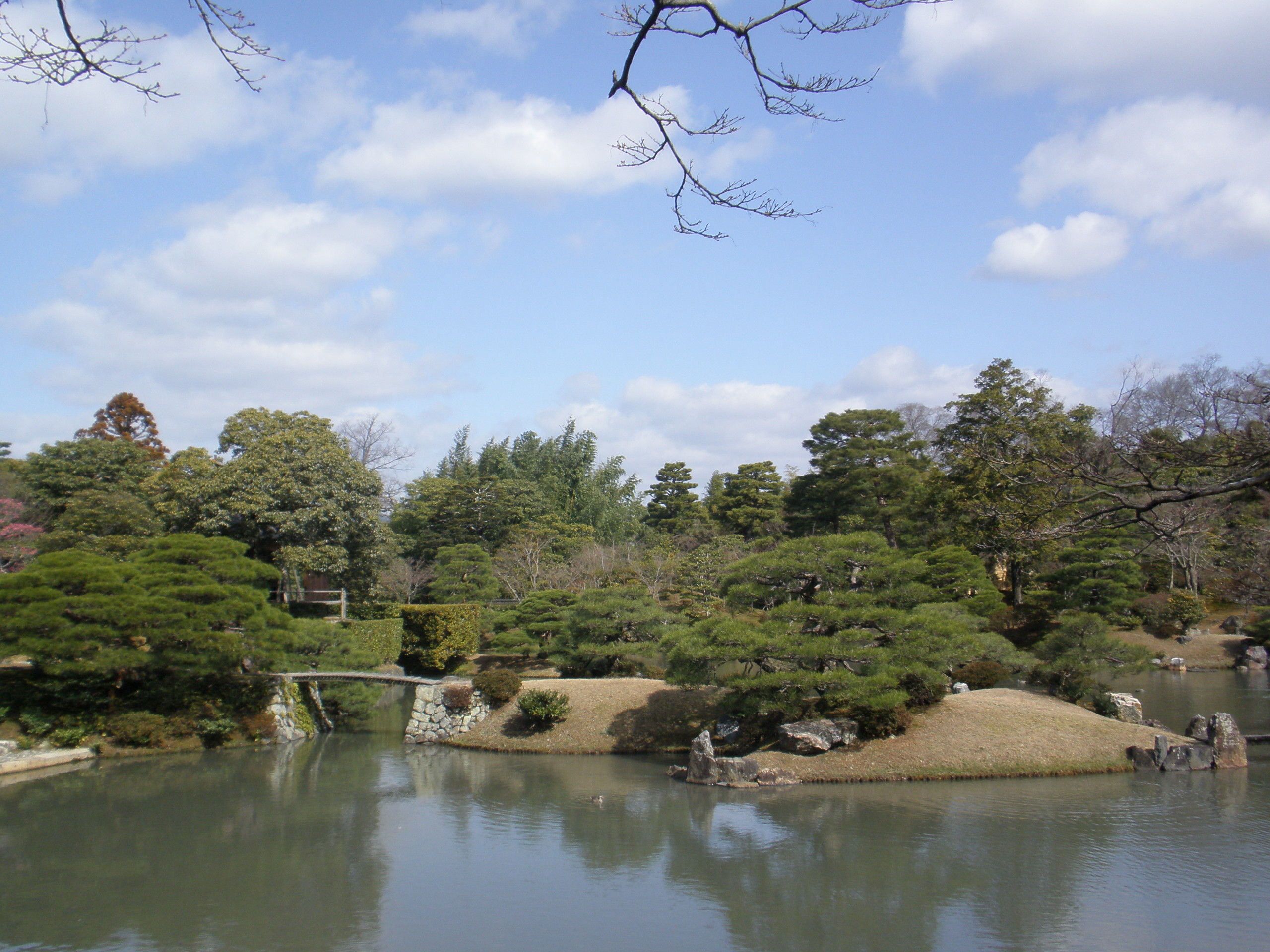 Katsura Imperial Villa in Kyoto.